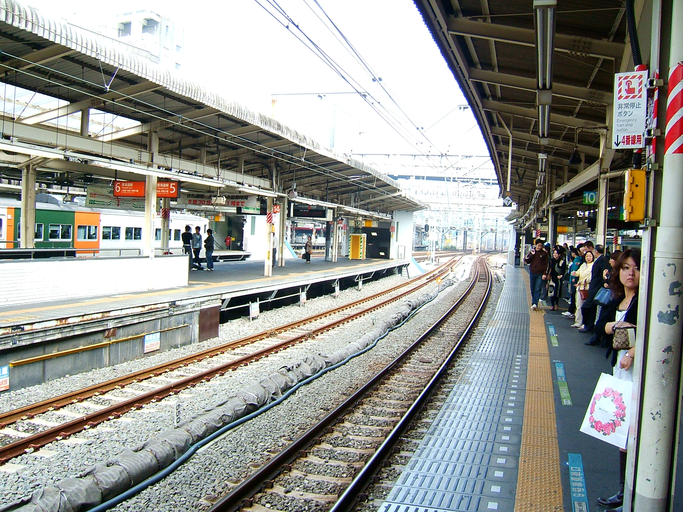 JR Yokohama station platform